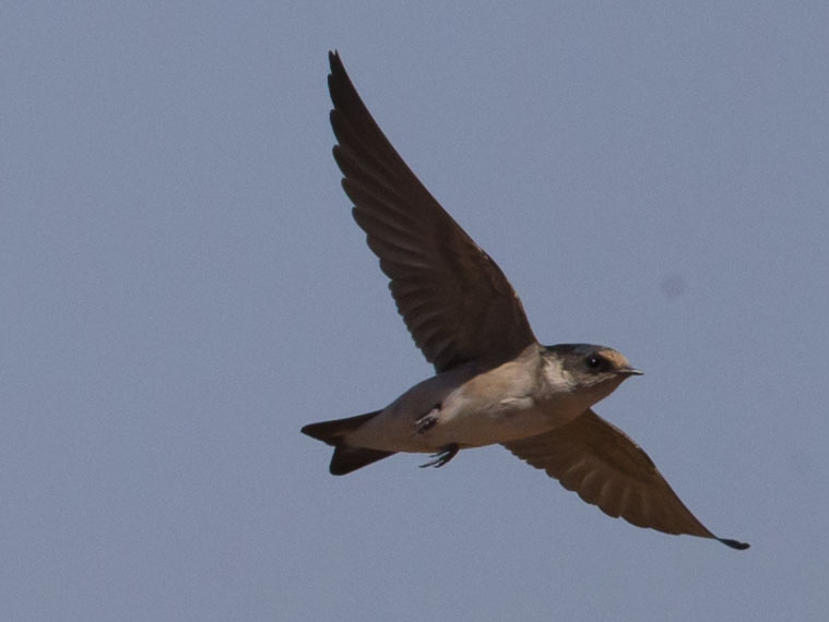 A Fairy Martin in Karratha, Pilbara, Western Australia, Australia.